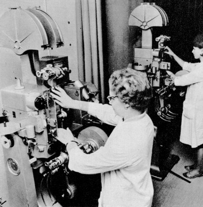 Film copy machines in the Suomi-Filmi laboratory.